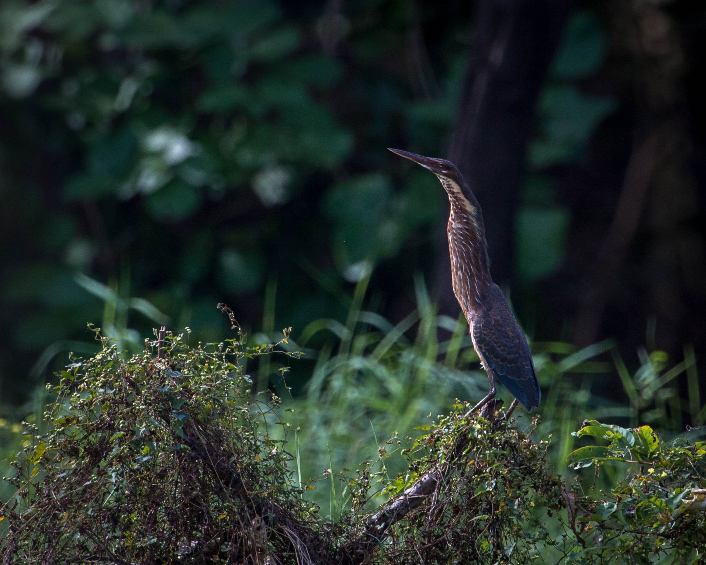 Black Bittern (Dupetor flavicollis) at Nature Trail, Bueng Boraphet, Nakorn Sawan province, Thailand.